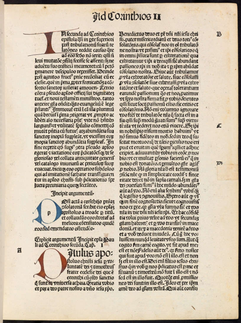 First page of Second Epistle to the Corinthians from a Latin Bible dated 1486. Image from the Polonsky Foundation Digitization Project. Shelfmark: Bib. Lat. 1486 d.3. Folio P vii recto. More provenance information at